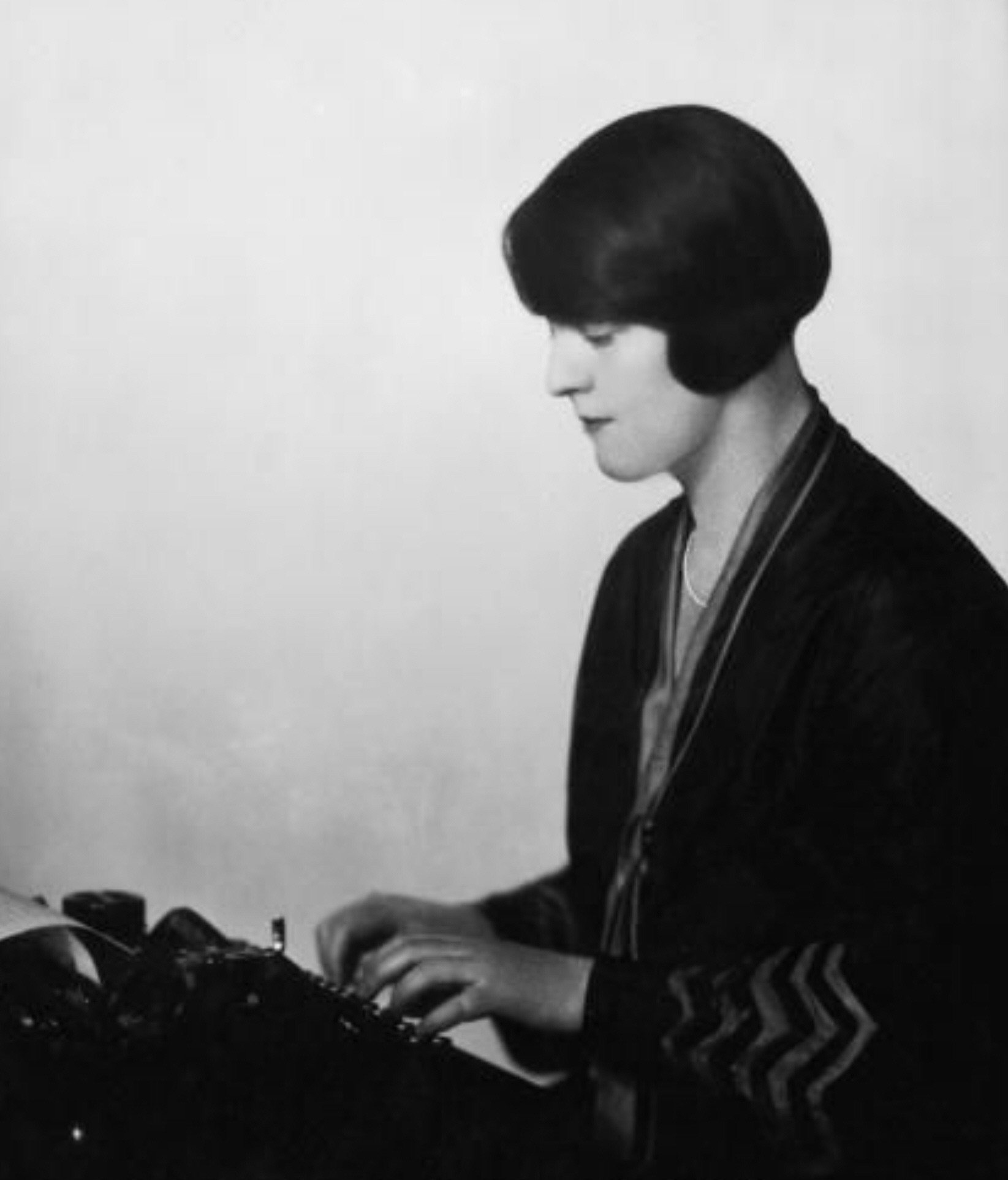 Dorothy Thompson (9 July 1894 – 30 January 1961), American journalist